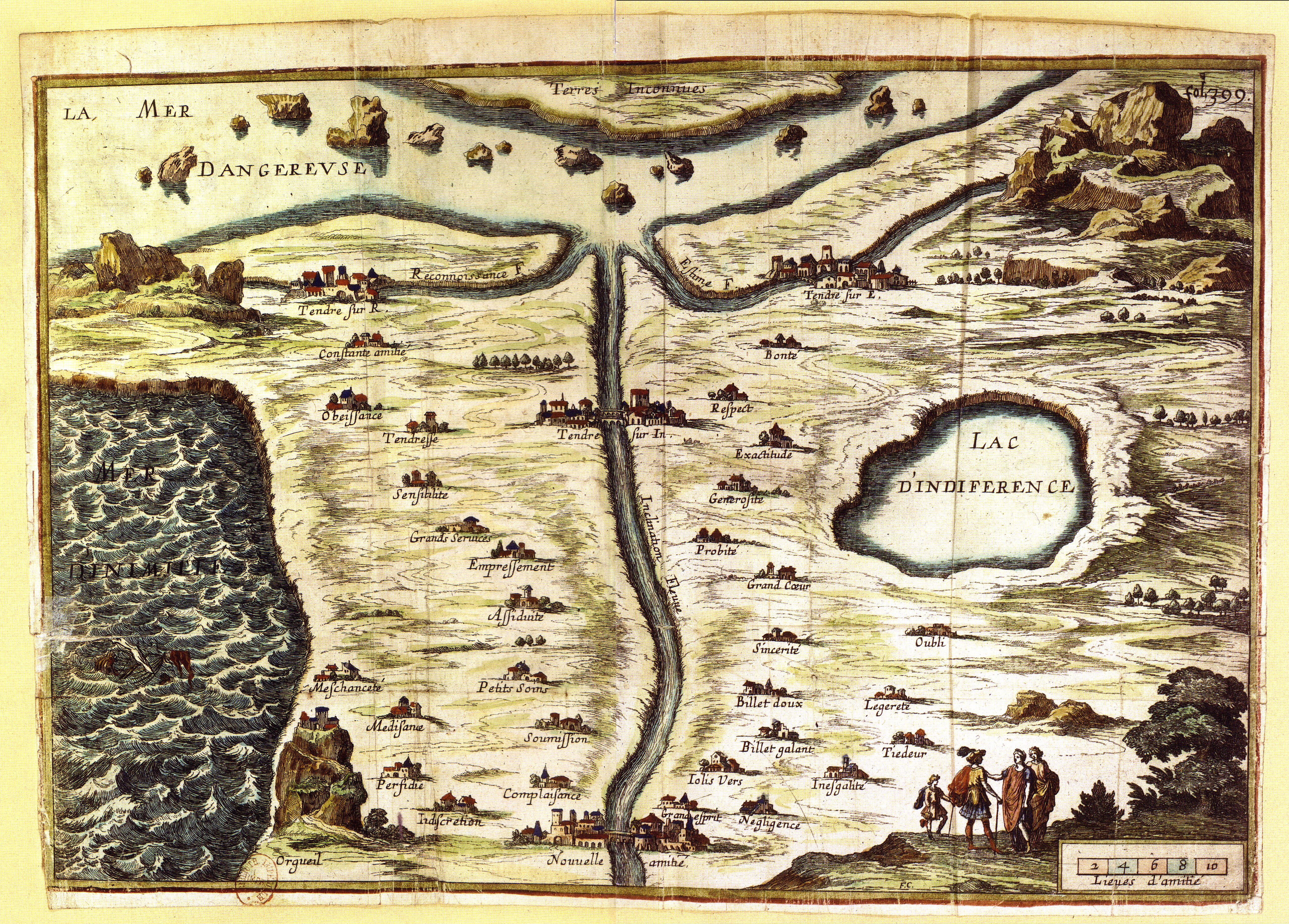 Allegorical map of the stages of love; starting near center top, one can go by way of the Reconaissance river (through the towns of Constante Amitié, Obeissance, Tendresse, Sensibilité, Grandes Services, Empressements, Assiduité, Petits Soins, Soumission, Complaisance) or by way of the Estime river (through the towns of Bonté, Respect, Exactitude, Generosité, Probité, Grand Coeur, Sincerité, Billet doux, Billet galant, Jolis Vers, and Grand esprit), or by way of the Inclination river (the most direct route) to arrive at the goal of Nouvelle Amitié. However, avoid Meschanceté, Médisance, Perfidie, Indiscretion, and Orgueil near the Mer d'Inimitié, as well as Oubli, Legereté, Tiedeur, Inegalité, and Negligence on the side of the Lac D'Indiference...